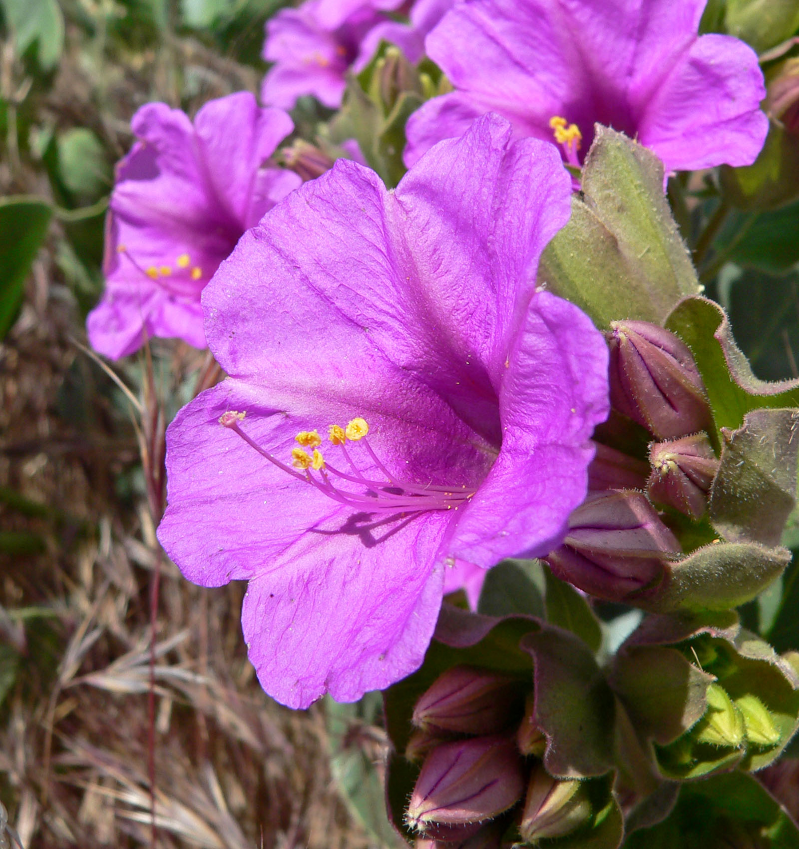 Photo of Mirabilis multiflora (giant four o'clock) in Red Rock Canyon, Nevada